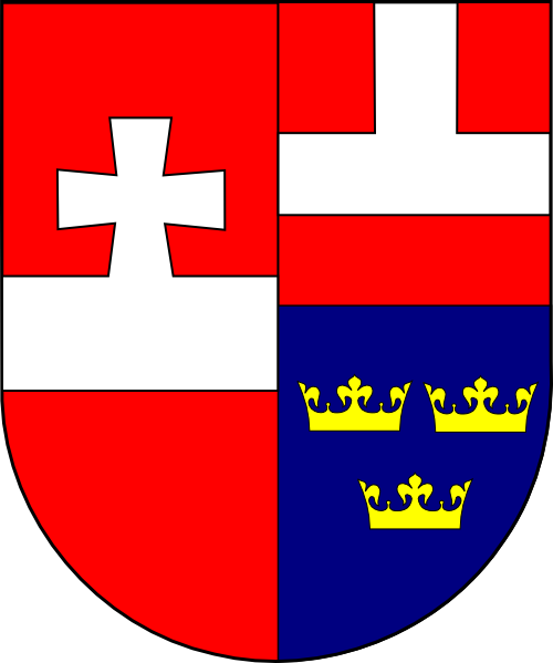 Coat of arms (shield only) of Friedrich cardinal Piffl, archbishop of Vienna (1913 - 1932)